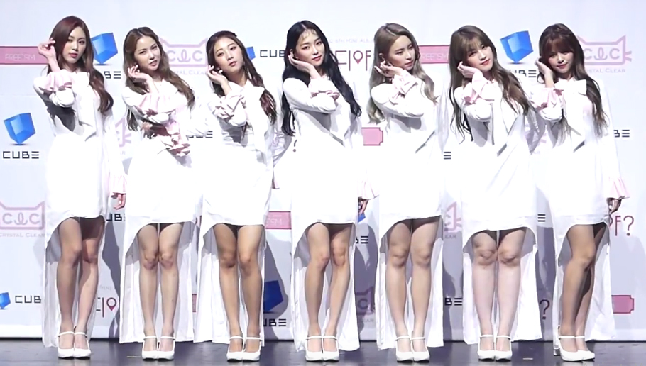 CLC 6th mini-album Free'sm showcase photo time.